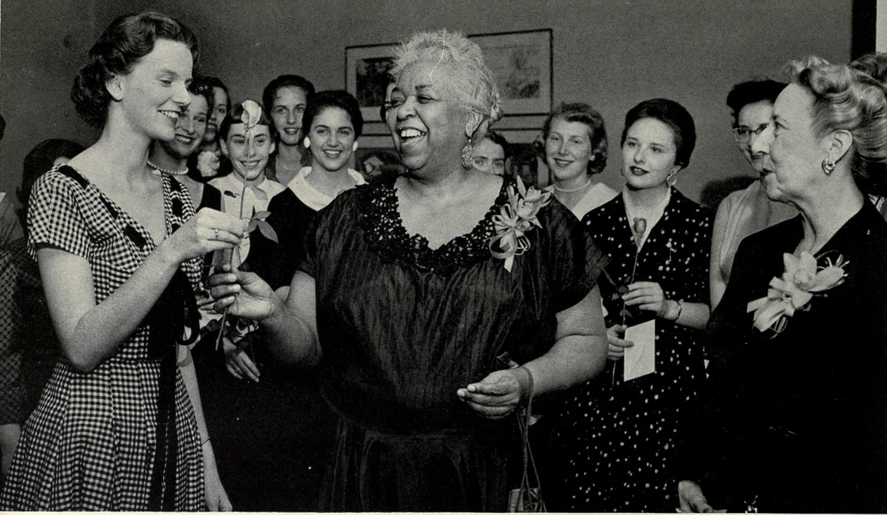 Photograph of Ethel Waters, photo taken at University of Michigan while starring in "Member of the Wedding," photo shows her initiation into Zeta Phi Eta, the national speech honorary This work is in the public domain because it was published in the United States between 1923 and 1963 and although there may or may not have been a copyright notice, the copyright was not renewed. Unless its author has been dead for the required period, it is copyrighted in the countries or areas that do not apply the rule of the shorter term for US works, such as Canada (50 pma), Mainland China (50 pma, not Hong Kong or Macao), Germany (70 pma), Mexico (100 pma), Switzerland (70 pma), and other countries with individual treaties. See Commons:Hirtle chart for further explanation. This work is in the public domain in the United States because it was published in the United States between 1923 and 1977 without a copyright notice. See Commons:Hirtle chart for further explanation. Note that it may still be copyrighted in jurisdictions that do not apply the rule of the shorter term for US works (depending on the date of the author's death), such as Canada (50 p.m.a.), Mainland China (50 p.m.a., not Hong Kong or Macao), Germany (70 p.m.a.), Mexico (100 p.m.a.), Switzerland (70 p.m.a.), and other countries with individual treaties.